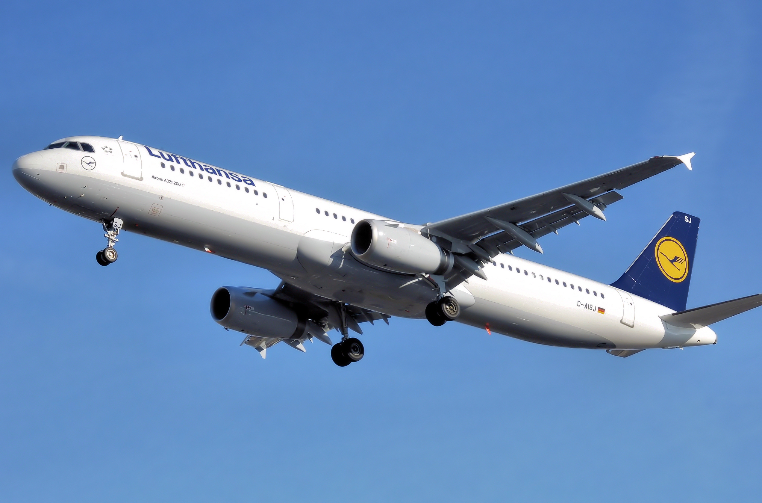 Lufthansa Airbus A321-200 (D-AISJ) lands at London Heathrow Airport, England.